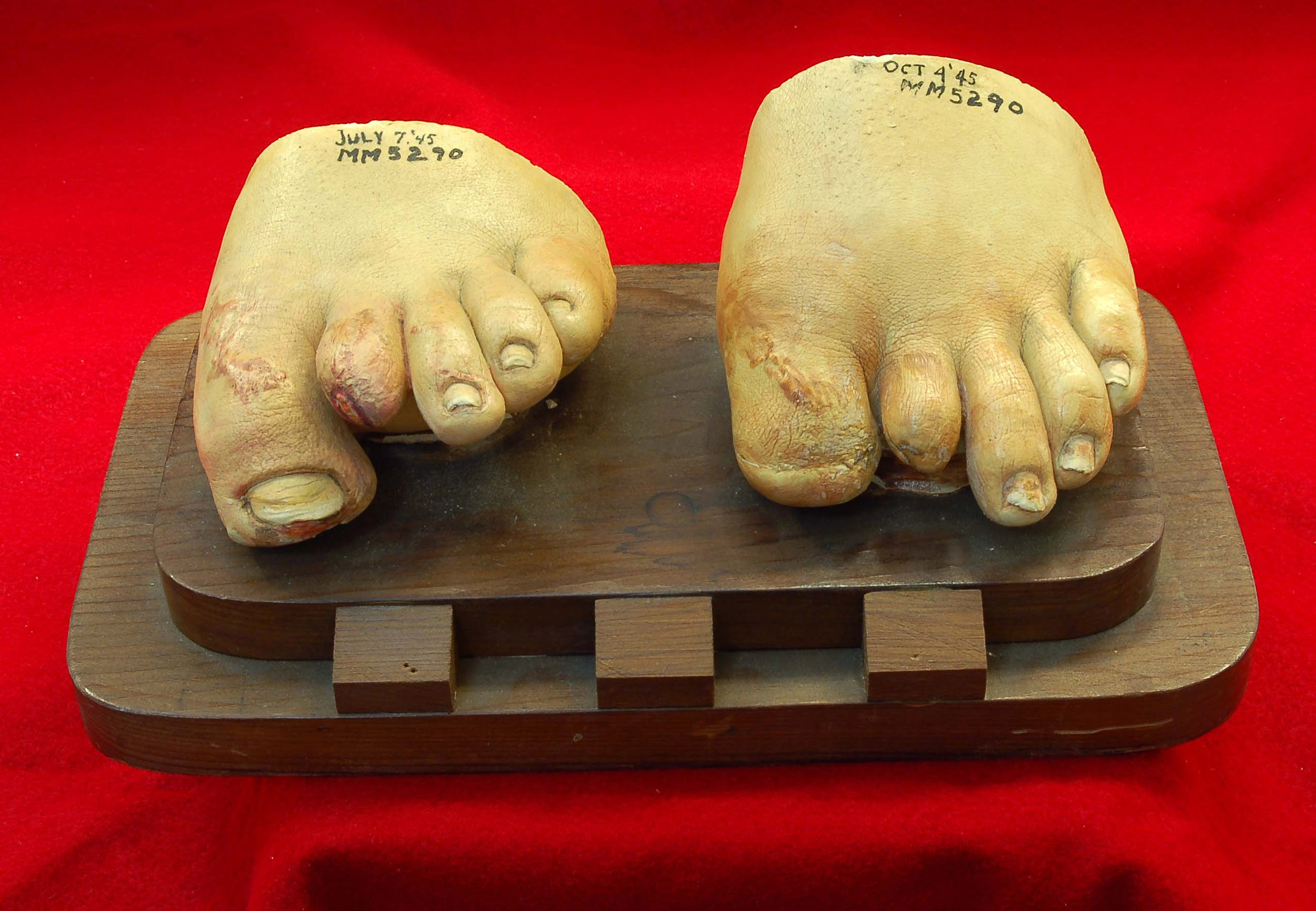 M-550.10196 Loss of toes (frostbite on feet), 1945 ; Site: Camp Carson General Hospital. Date: 1945. Plaster model of feet showing frost-bite, with the loss of some toes. Historical Collections Division ; National Museum of Health and Medicine ; Washington, DC